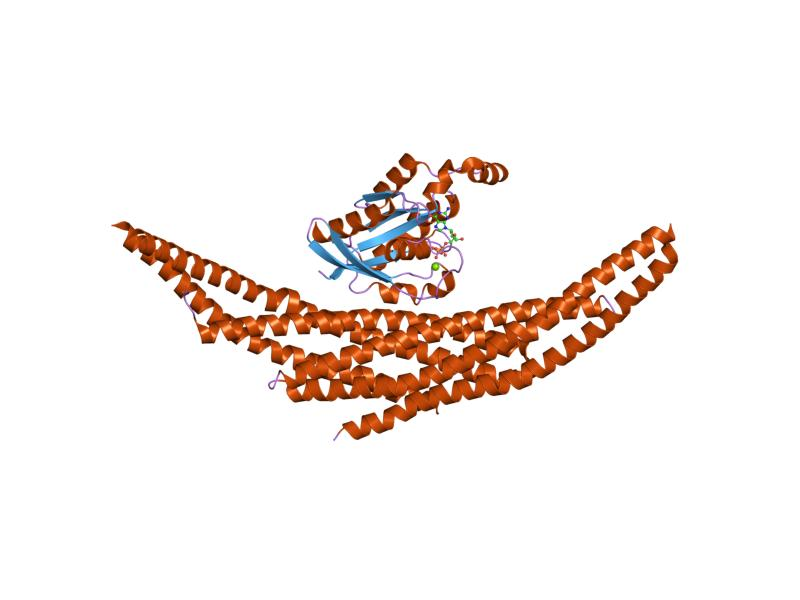 Cartoon representation of the molecular structure of protein registered with 1i4d code.